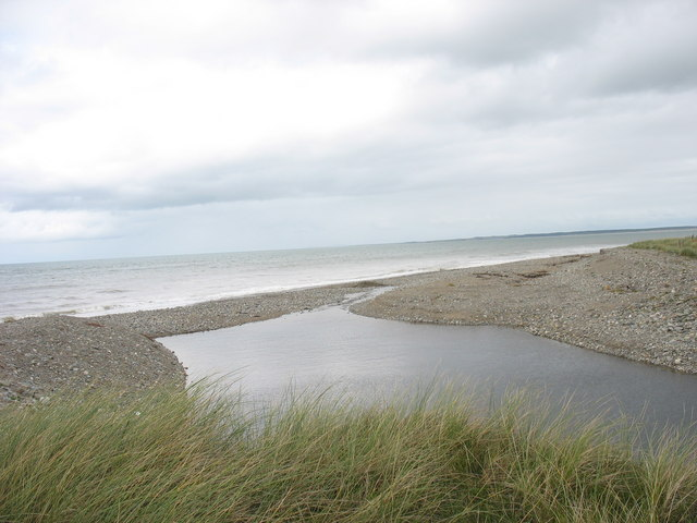 The Estuary of Afon Llifon The river is partially dammed behind the shingle bar. The dammed area is deep. This is the same river that flows through Parc Glynllifon.